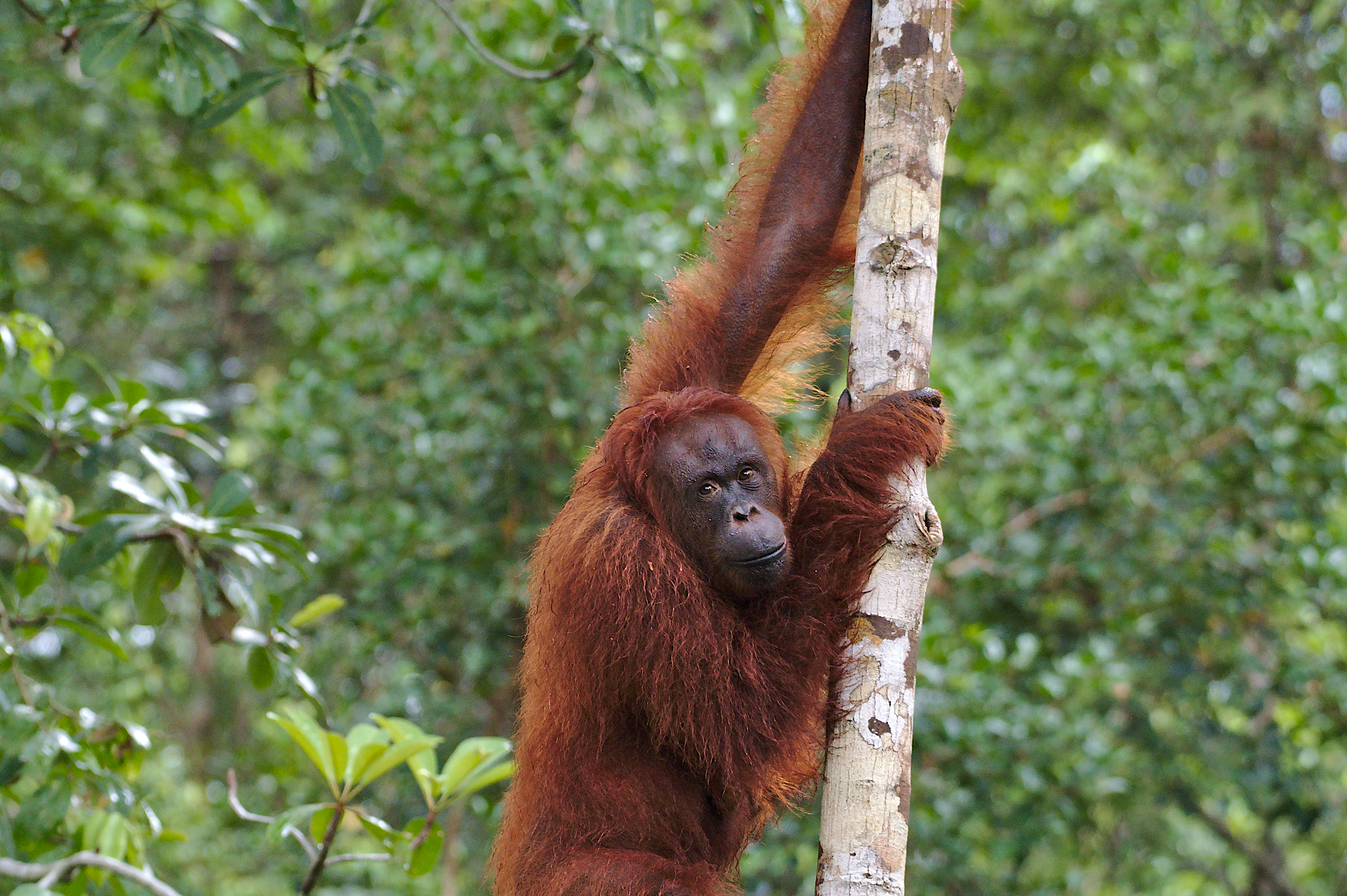 Rimba Raya has partnered with Primatologist and Conservationist Dr. Biruté Mary Galdikas to provide natural habitats for endangered orangutans in Borneo. The reserve also funds the Orangutan Foundation International and their Orangutan care center, which aims to reintroduce 300 wild born, rehabilitated orphaned orangutans in its care, back into the wild within the safe confines of the Rimba Raya Reserve.